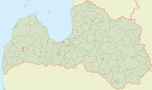 Location of Raņķi Parish in Latvia